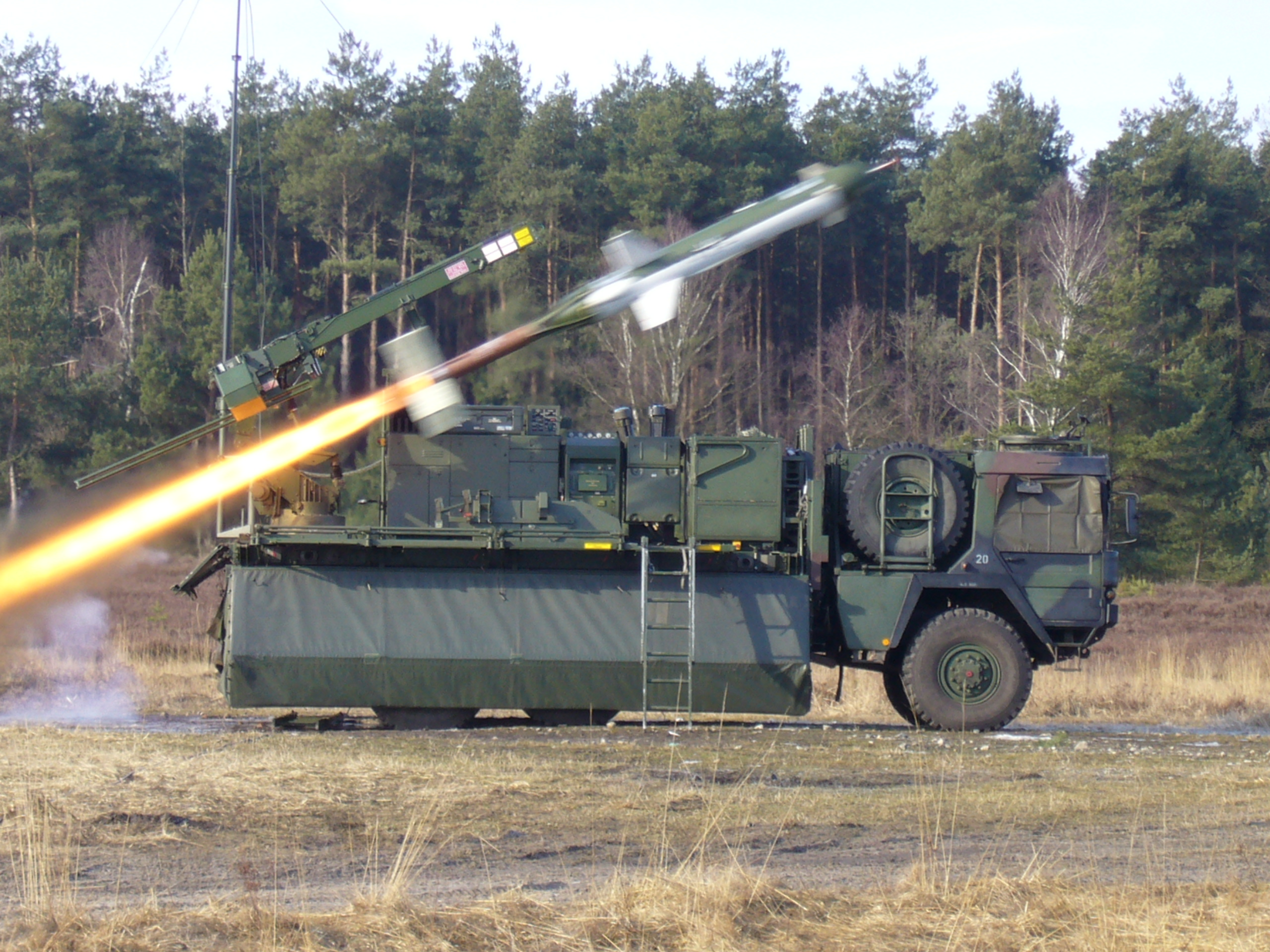 Start CL-289